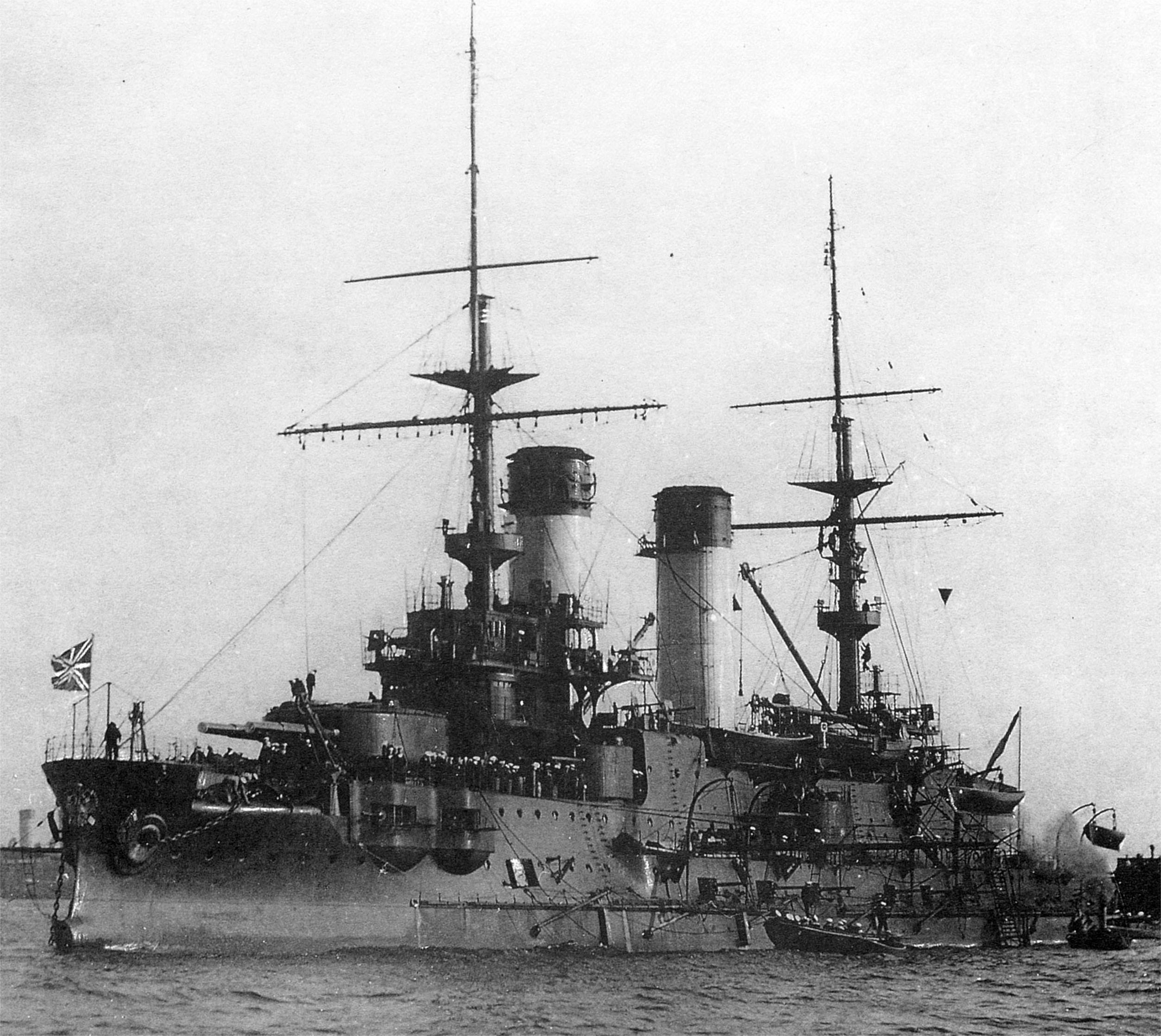 Imperial Russian battleship Borodino at Kronshtadt, Augst 1904.